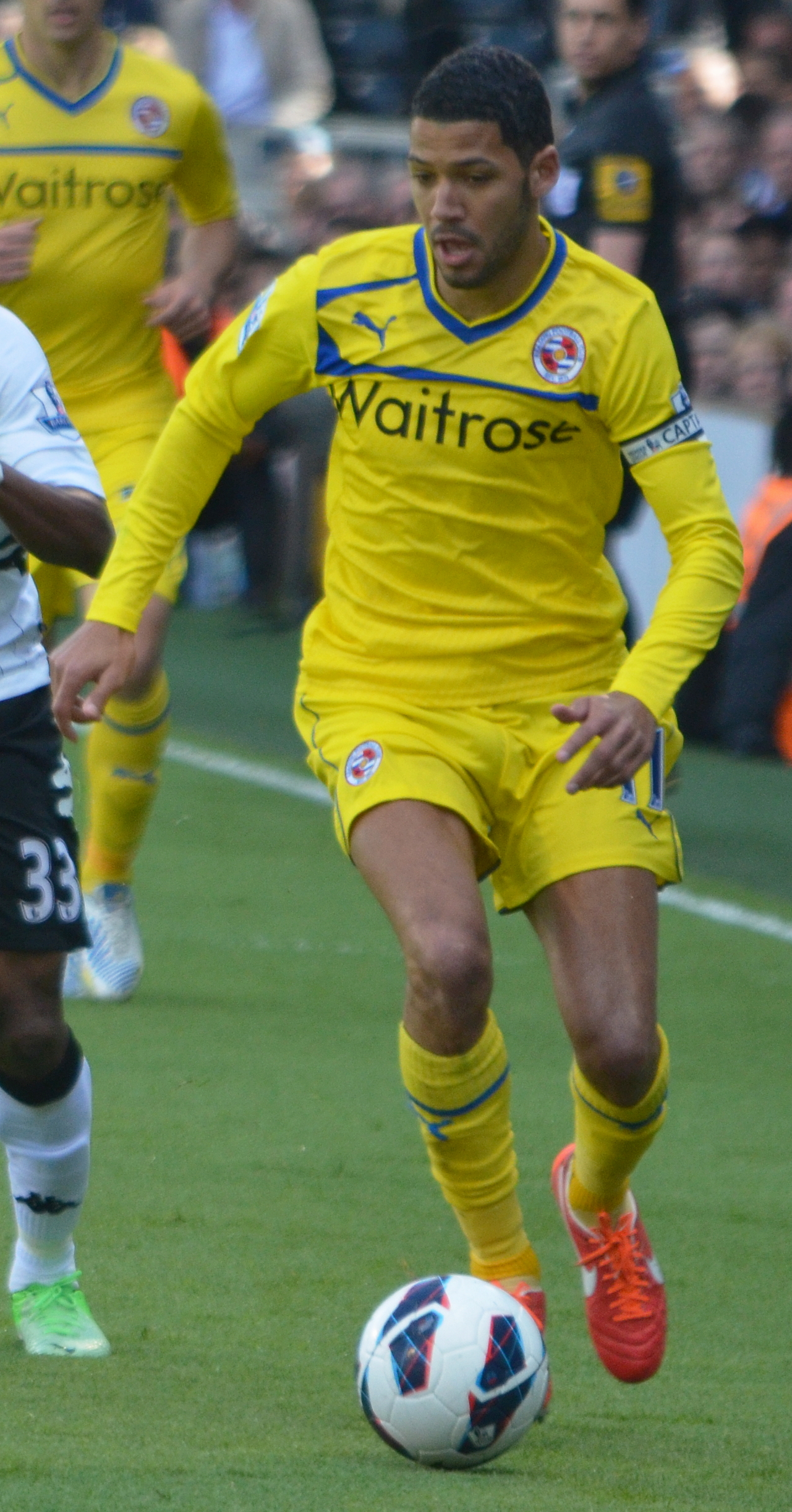 Jobi McAnuff. Image cropped from original at flickr.